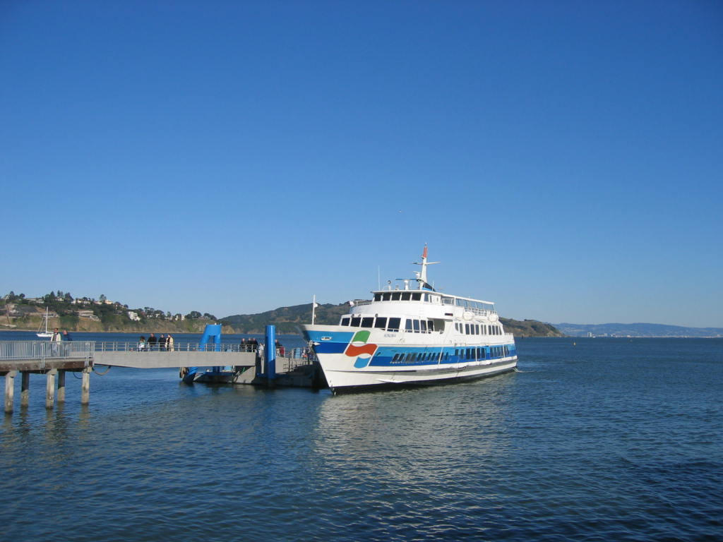 Description: Ferry from Sausalito to San Francisco Author: User:Jiang Date: February 20, 2006